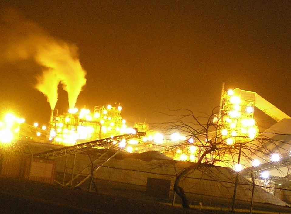 Spotlights lit the Dead Sea night skies, as smoke clouds the sky. The smoke is bellowing skywards from the chimneys of the Dead Sea Factories, along the Dead Sea, Israel.